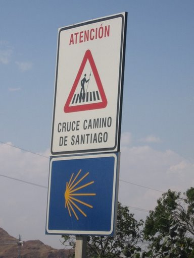 camino de santiago